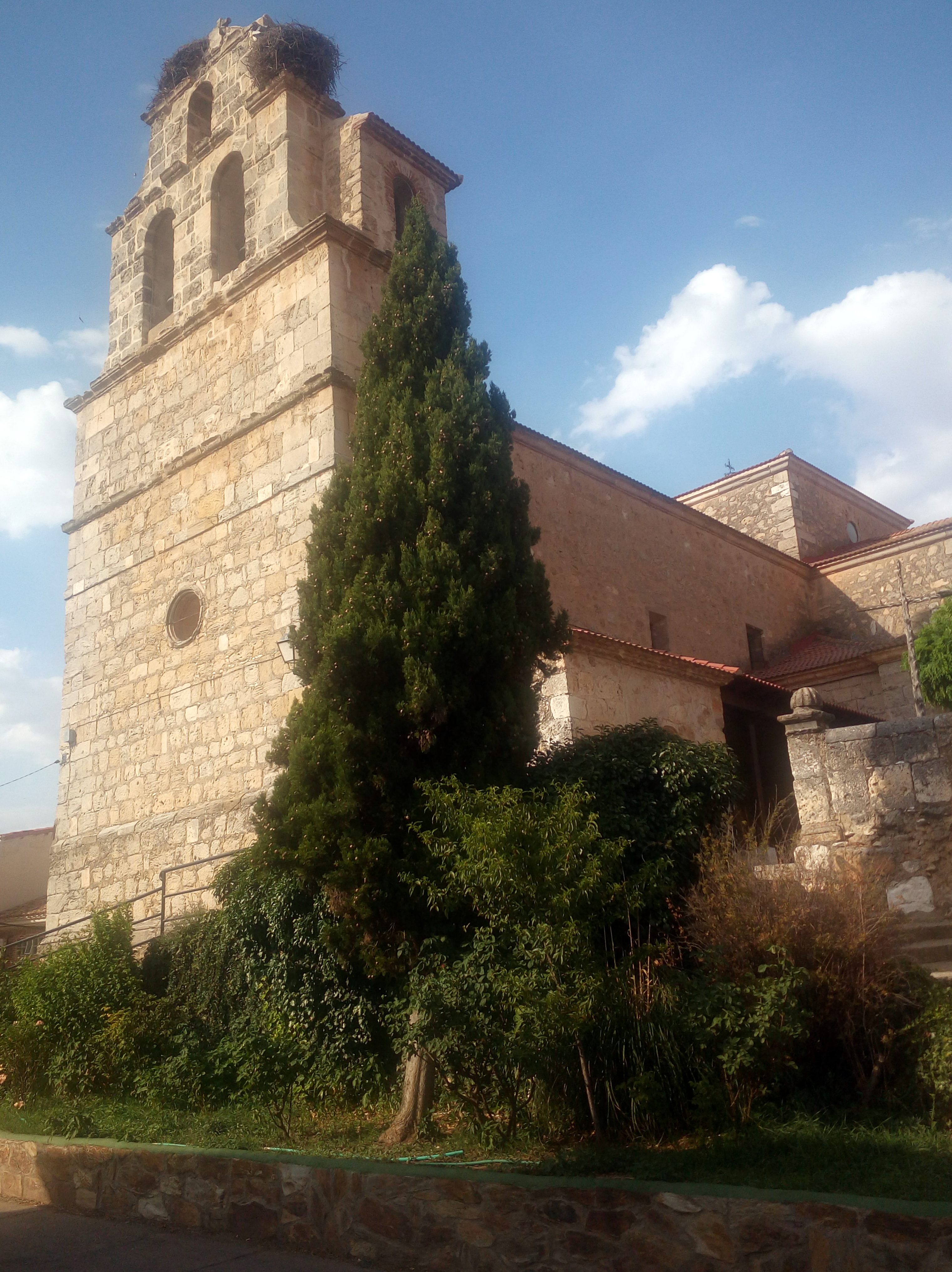 Church of St. James the Great in Castrillo de la Vega, Burgos, Spain.